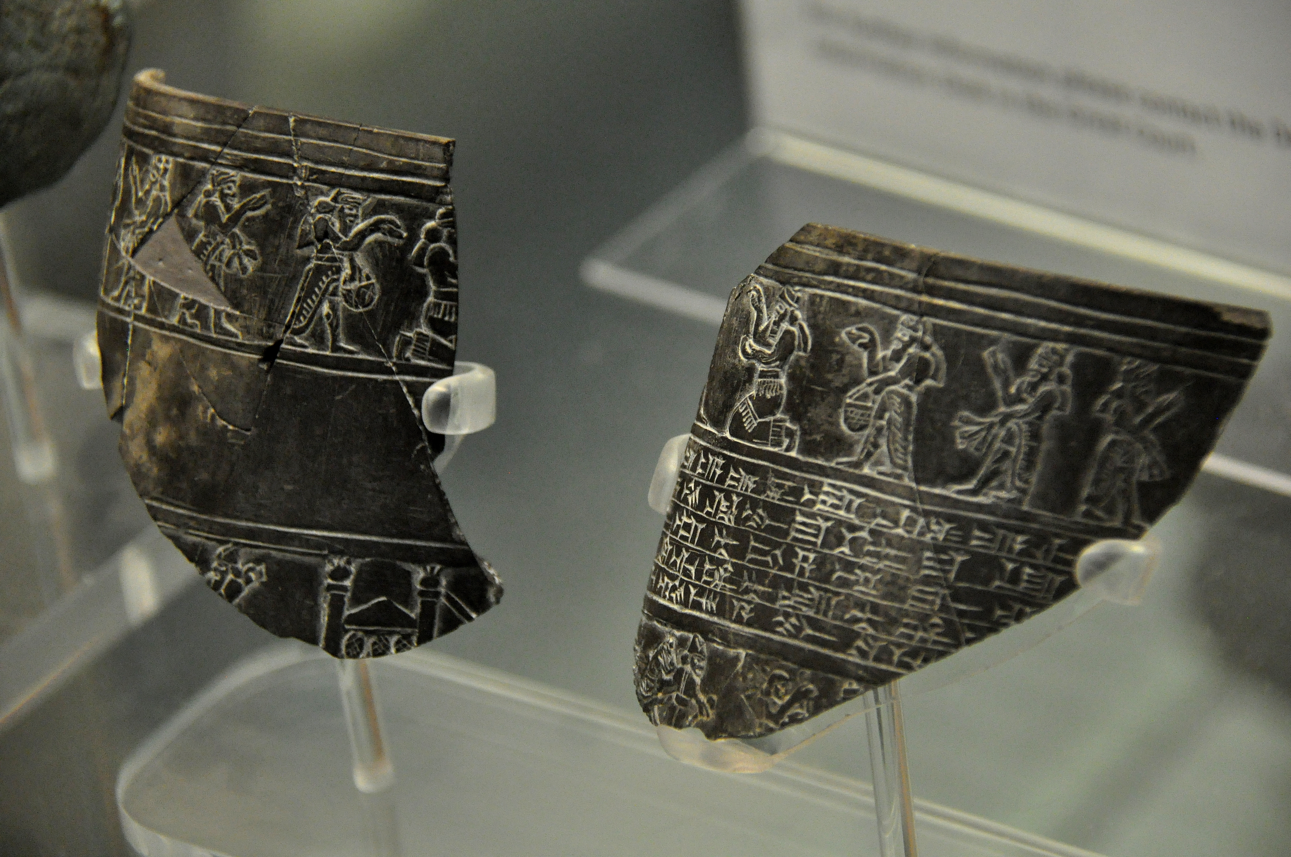 Fragments of a circular vessel dedicated to the temple of god Nergal by a high official. The vessel depicts king Shalmaneser III kneeling before a central figure, probably Nergal (only part of the god can be seen). From the temple of Nergal at Tarbisu, Nineveh, Mesopotamia, modern-day Iraq. Reign of Shalmaneser III, 9th century BCE. The British Museum, London.